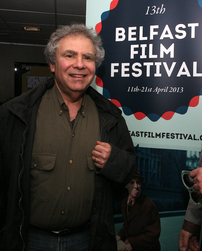 Janusz Mrozowski won the Maysles Brother's Documentary Award in 2013